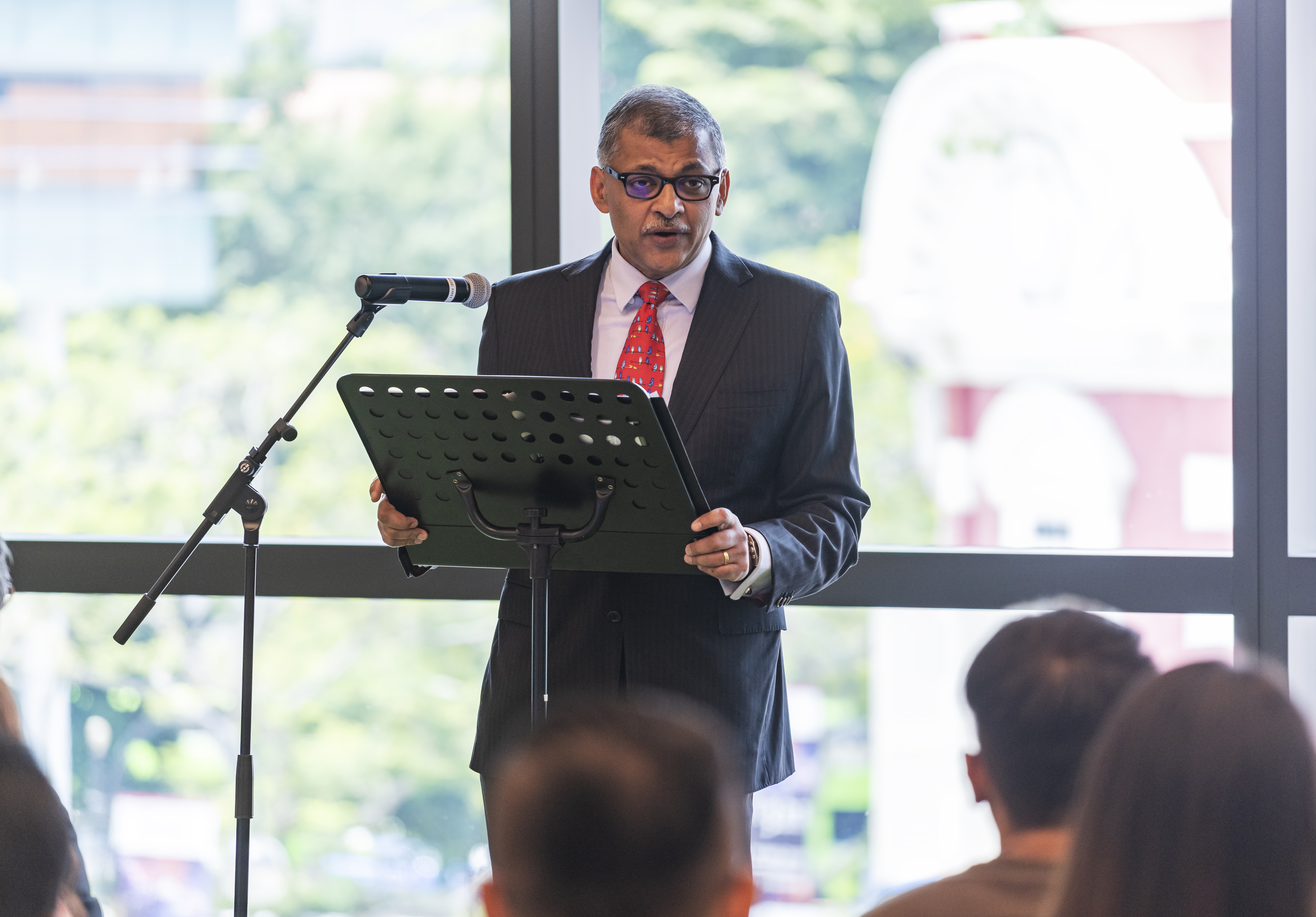 chief justice sundaresh menon 2019 singapore management university school of law